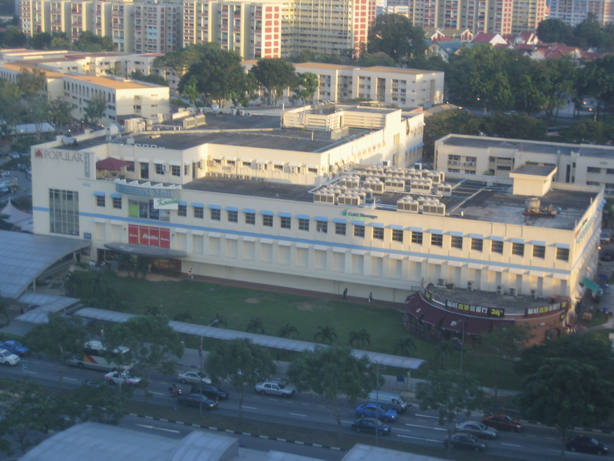 A view of Heartland Mall, Singapore from the top. The side that shows the shopping mall is where its main entrance is located, just behind Kovan MRT Station. It was taken on a Saturday afternoon, where cars typically fill Upper Serangoon Road, which is just in front of the mall.